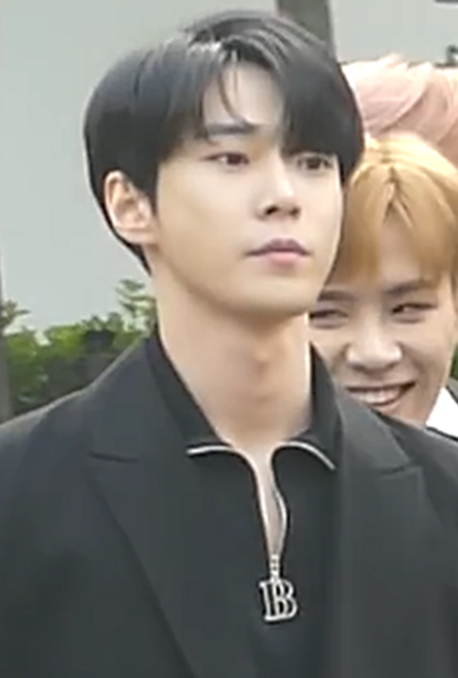 Doyoung going to a Music Bank recording on April 20, 2018.